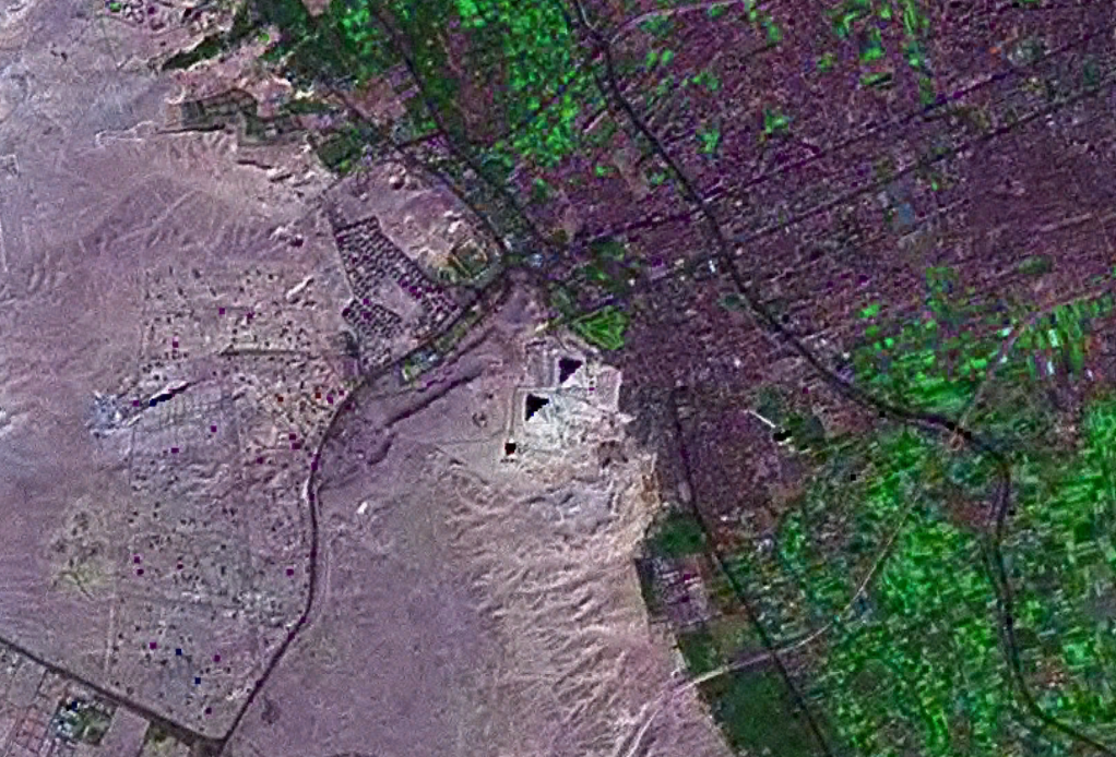 Giza necroplis seen from space, altitude of 8.8 km. Three black/purple triangular-shaped object near the middle of the image.